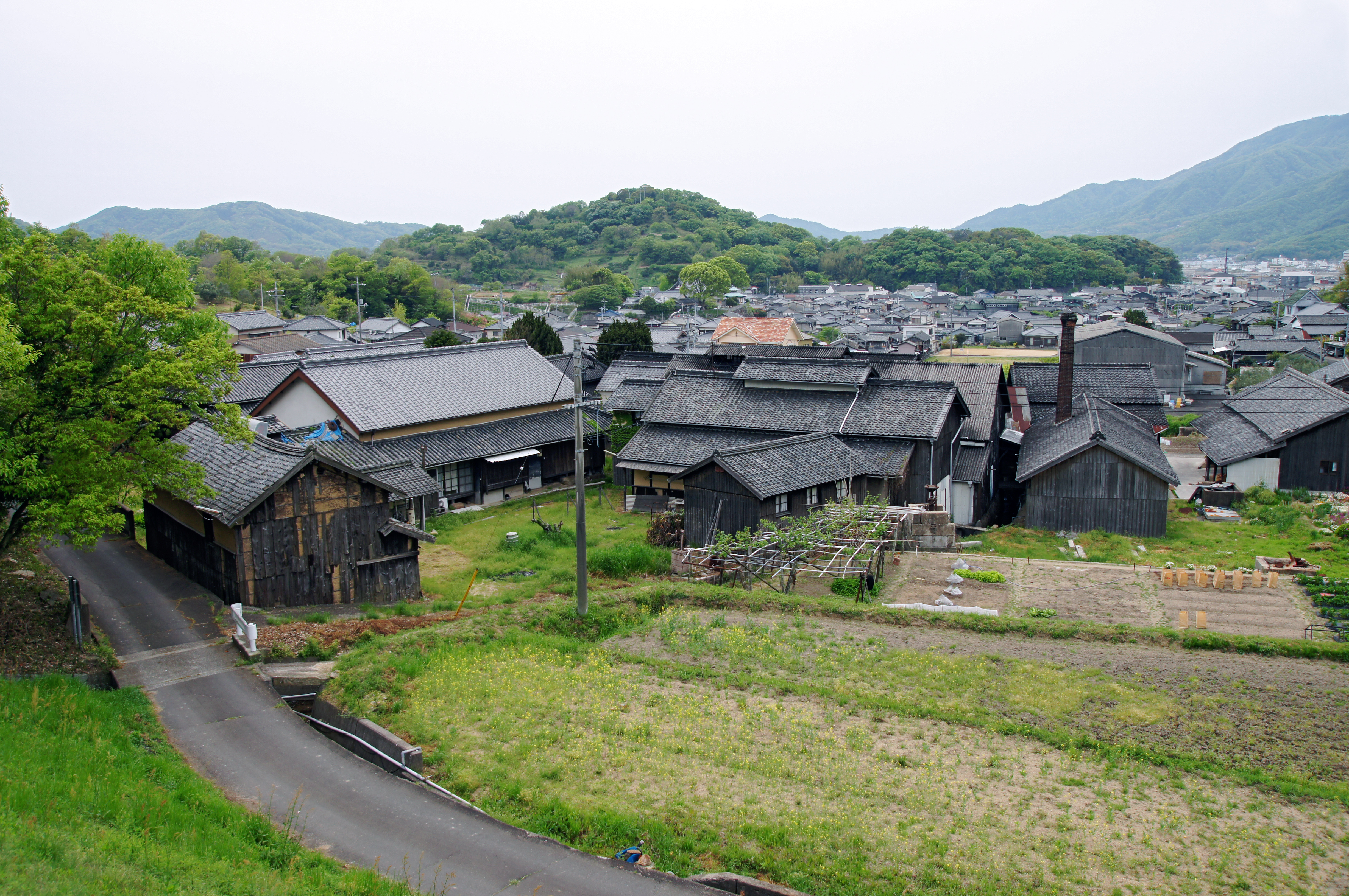 Hishio-no-sato of Shodo Island in Shodoshima, Kagawa prefecture, Japan